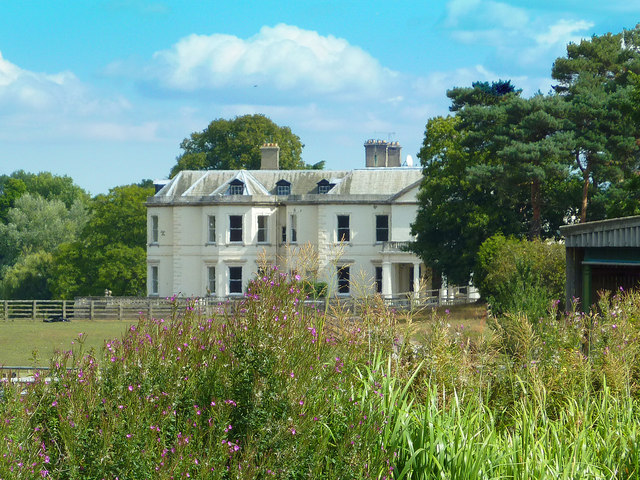 Osberton Hall